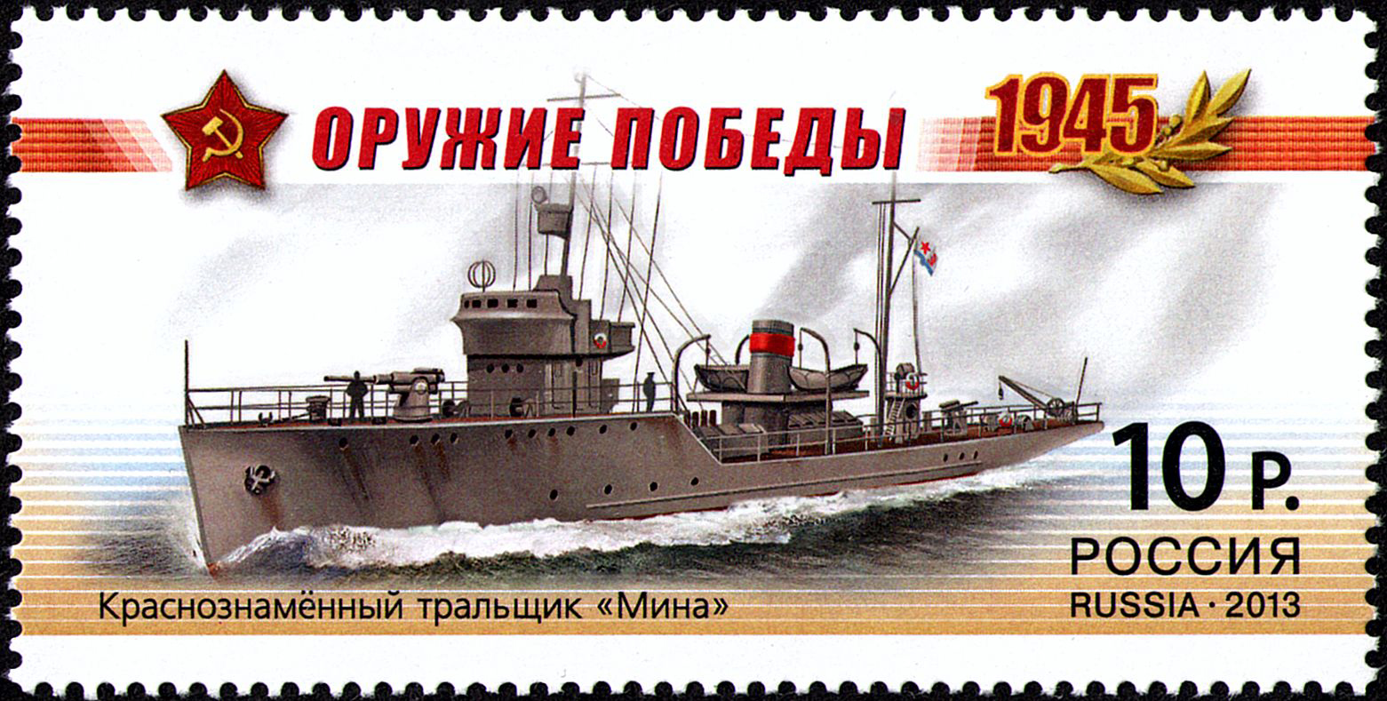 The weapon of the Victory (the ongoing stamp series). Issue V: Warships. The Soviet minesweeper Mina (Project 53 Strela). Launched 1937. Black Sea Fleet of the Soviet Navy. The minesweeper Mina was awarded the Order of the Red Banner. The stamp of Russia, 10.00 Rubles, 8 May 2013, PTC Marka Catalogue No 1694, Michel No 1927. Coated paper. Offset printing, multicoloured. Perforation: comb 13½×13½. Size of the stamp: 65×32.5 mm. Print run: 465,000.